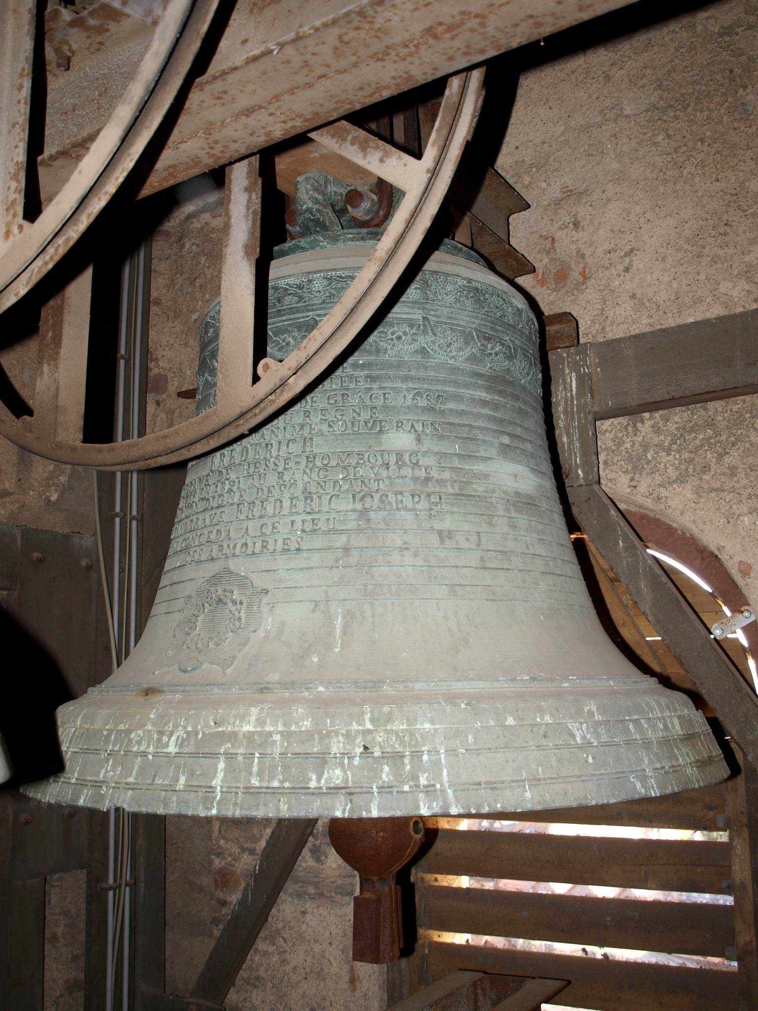 Bell cast 1836 by Philipp Bach in Windecken, Hesse